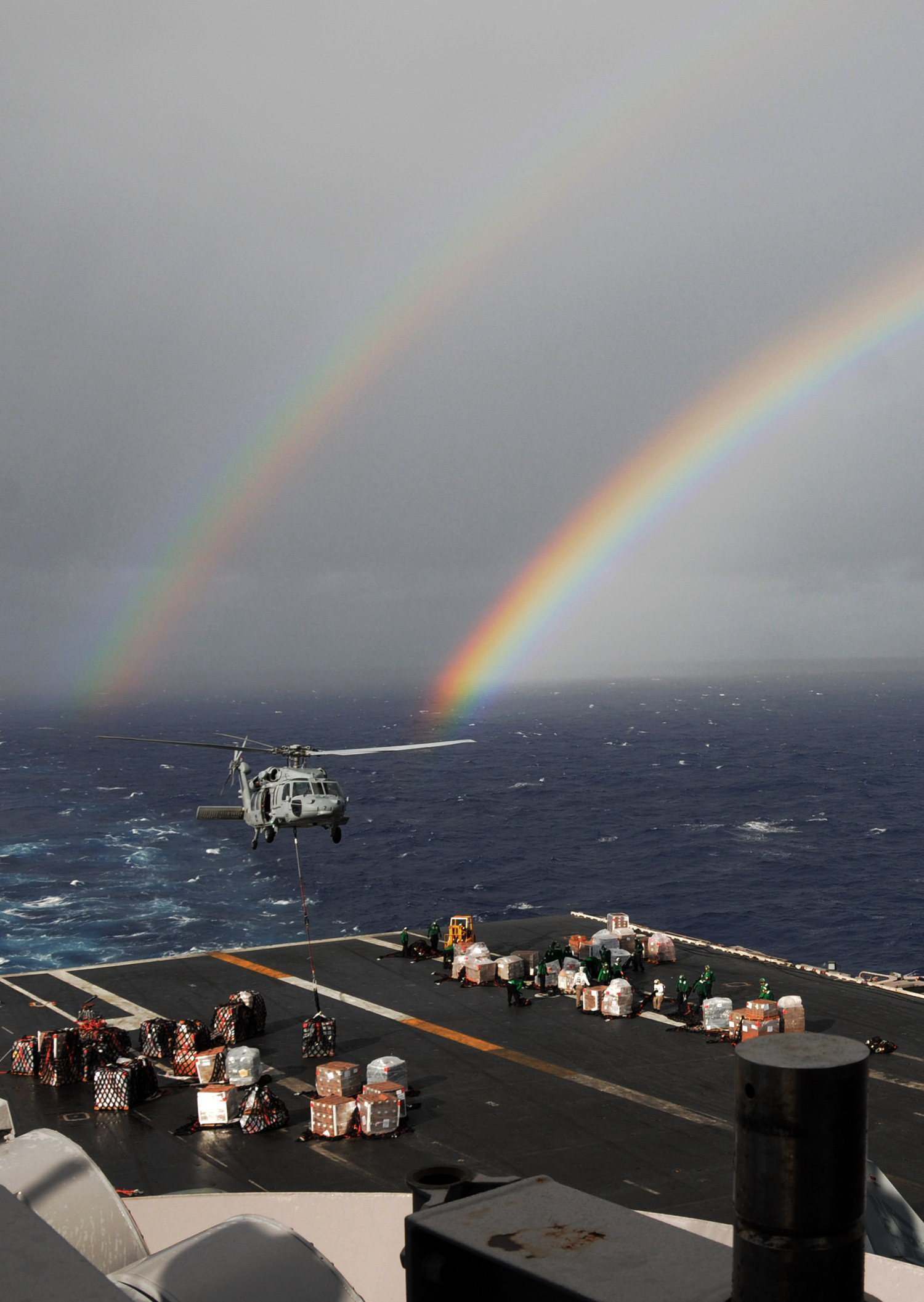 PACIFIC OCEAN (Dec. 27, 2011) An MH-60S Sea Hawk helicopter from the Golden Falcons of Helicopter Sea Combat Squadron (HSC) 12 delivers supplies to the Nimitz-class aircraft carrier USS Abraham Lincoln (CVN 72). Lincoln is in the U.S. 7th Fleet area of operations (AOO) as part of a deployment to the western Pacific and Indian Oceans en route to support coalition efforts in the 5th Fleet AOO. (U.S. Navy photo by Mass Communication Specialist Seaman Apprentice Joshua E. Walters/Released)